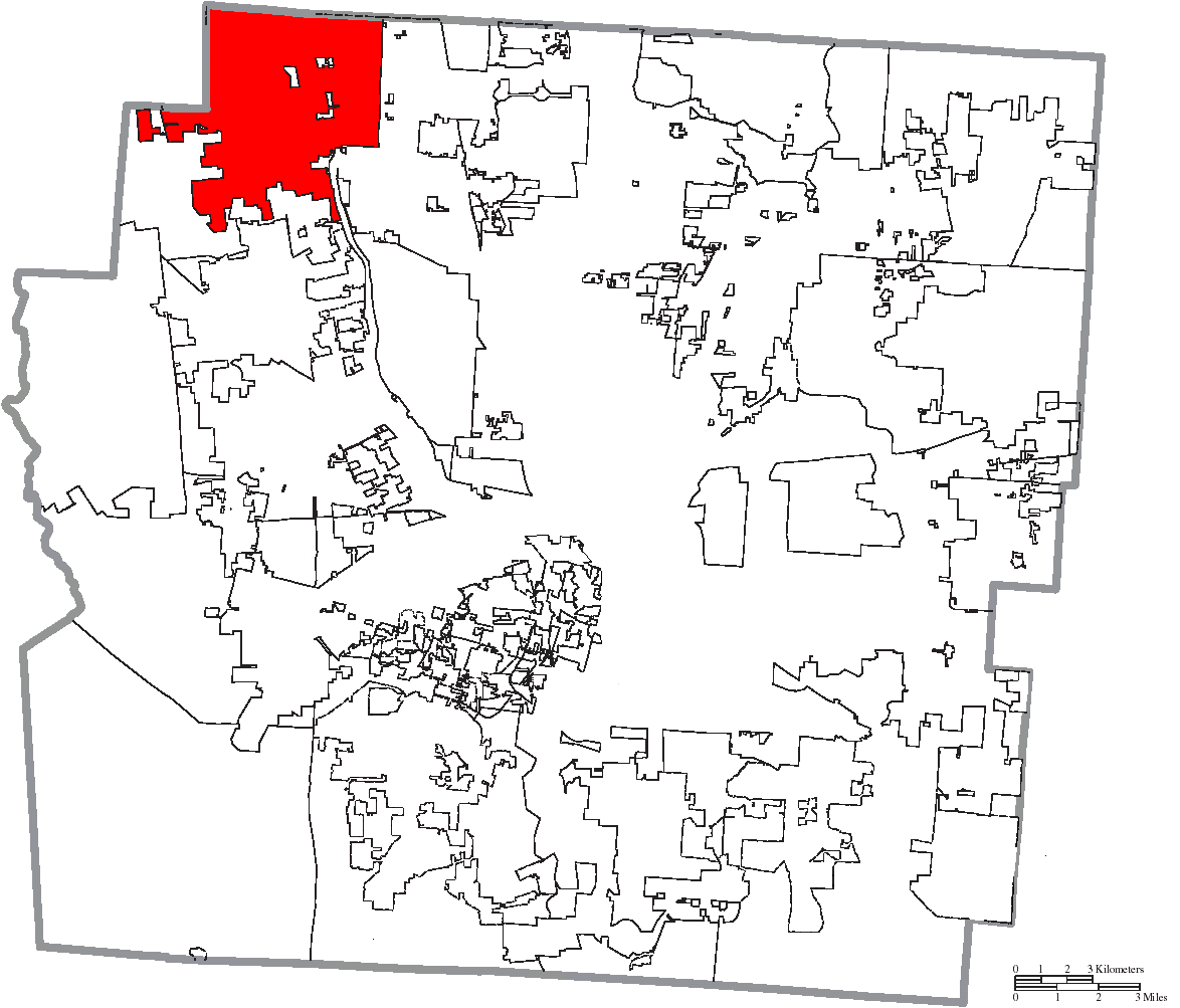 Map of the municipal and township boundaries of Franklin County, Ohio, United States, as of the 2000 census, with the location of the city of Dublin highlighted. Township borders are shown only in unincorporated areas in order to differentiate incorporated and unincorporated areas more clearly. Due to the extremely fractured nature of the county's municipal boundaries, details of boundaries and the identity of township islands may be inaccurate.